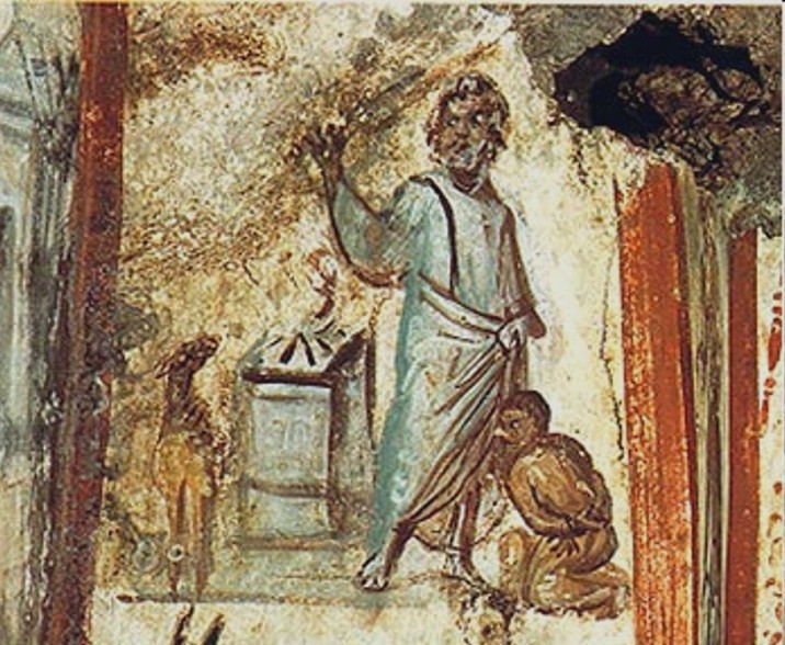 Father Abraham slaying his son Isaac